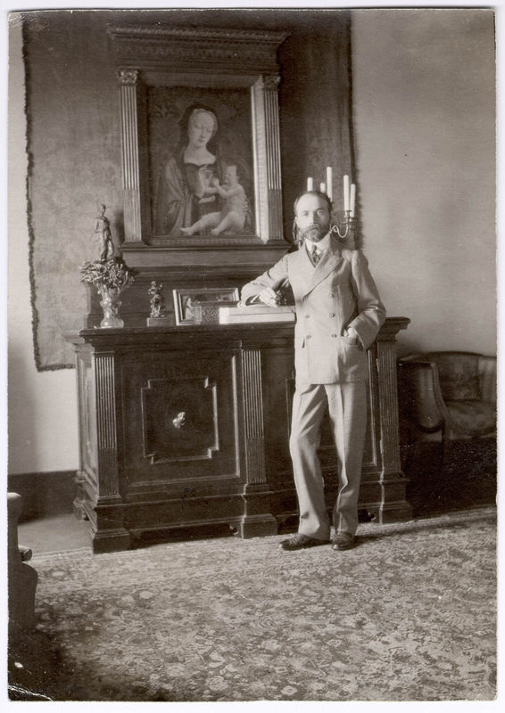 American art historian Bernard Berenson (1865–1959) at Villa I Tatti